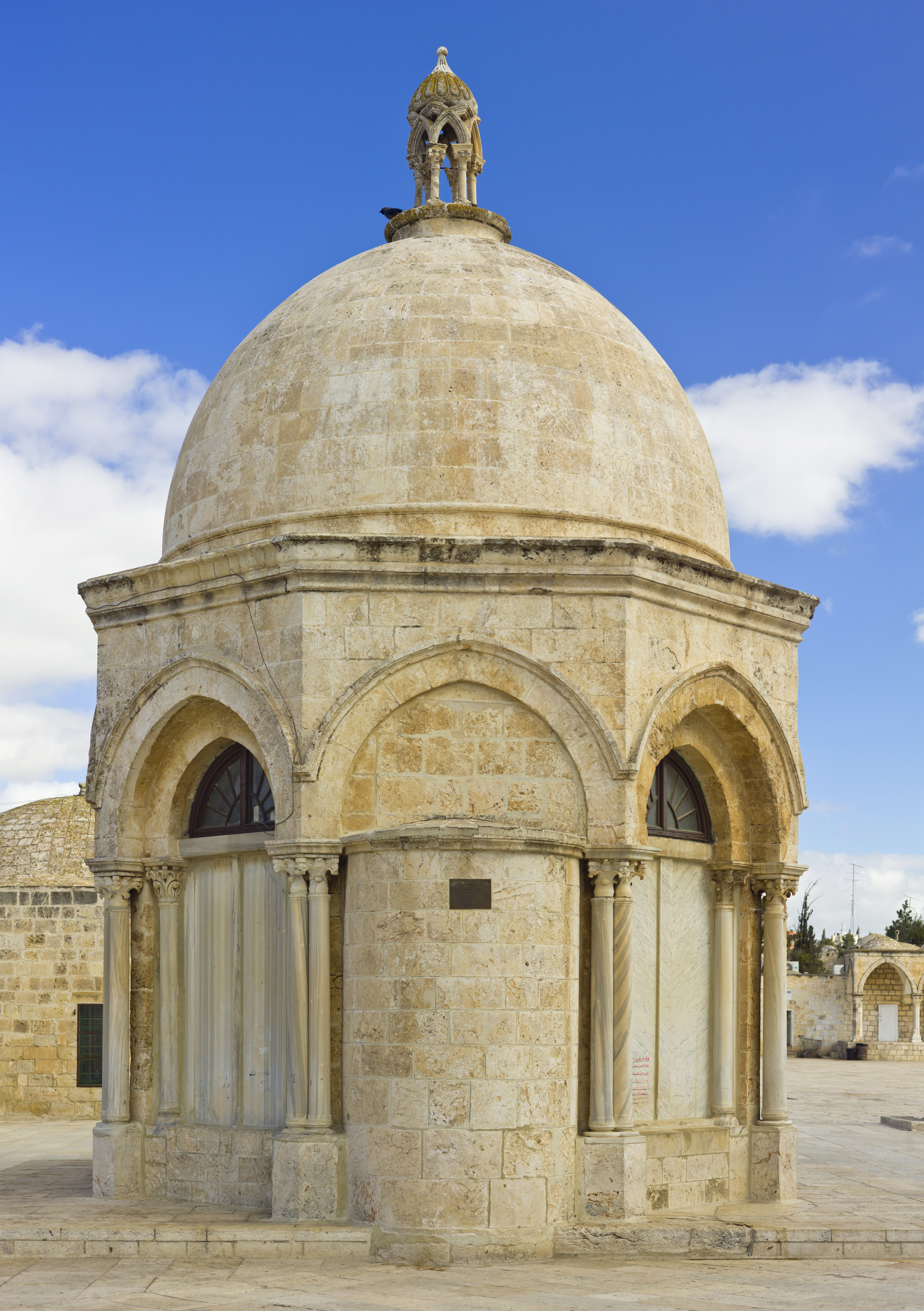 The Dome of the Ascension (Arabic: قبة المعراج) was constructed to commemorate the prophet Muhammad's ascension to heaven. Located on the Temple Mount in the Old City of Jerusalem.